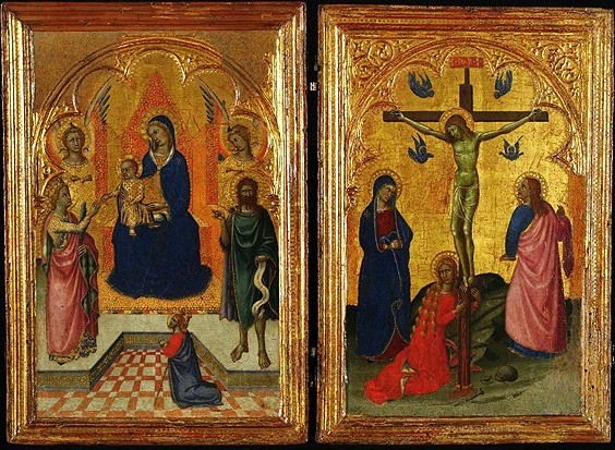 Niccolo_di_Buonaccorso._Mystic_Marriage_of_st_Catherine_and_Crusifiction_1380_L'Aquila,_Museo_nazionale,_Abruzzo